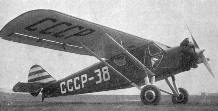 Yakovlev AIR-5 photo from L'Aerophile July 1933